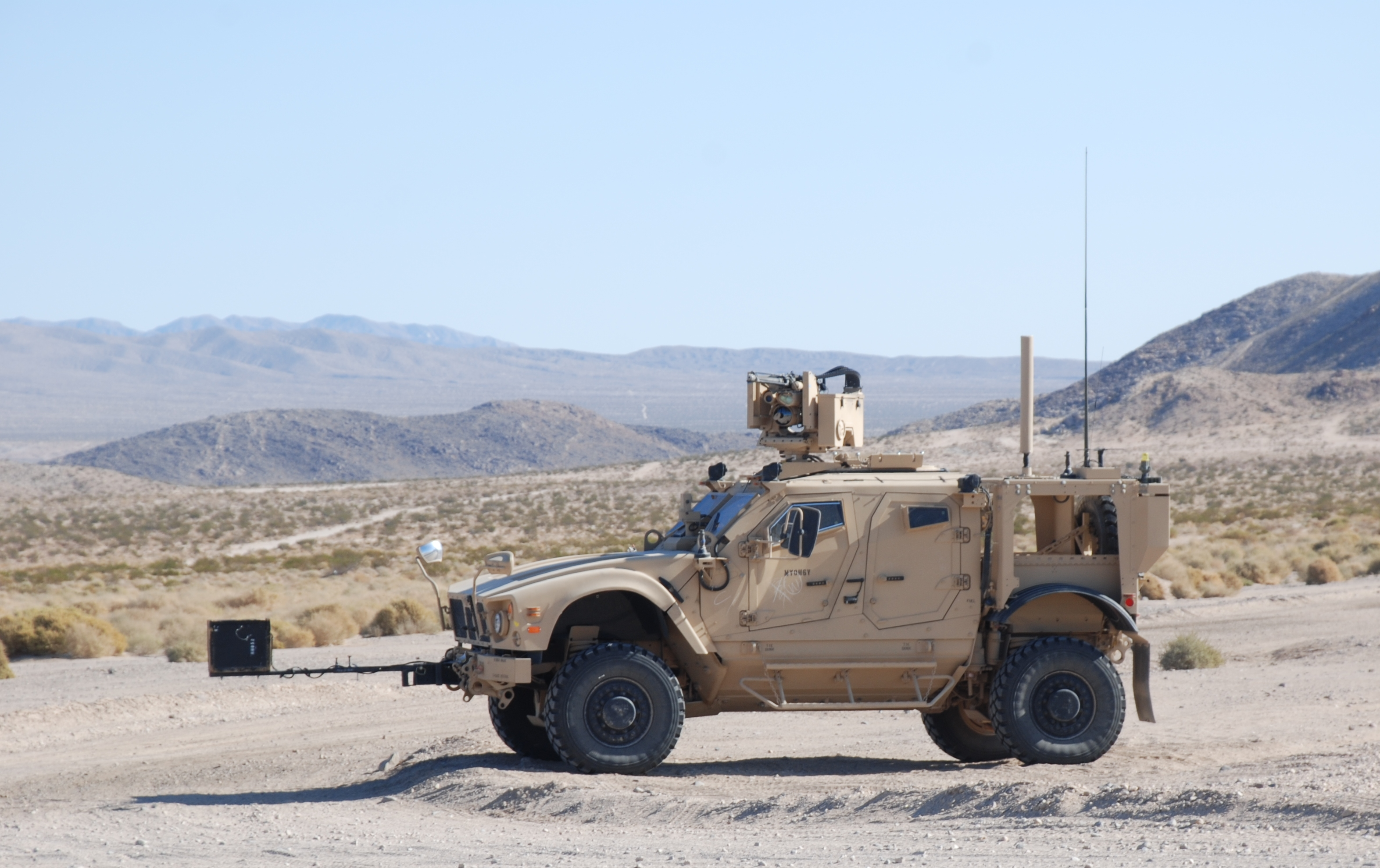 Oshkosh M-ATV with CROWS II (RWS) (Common Remotely Operated Weapon Station) turet at Fort Irwin National Training Center in California.